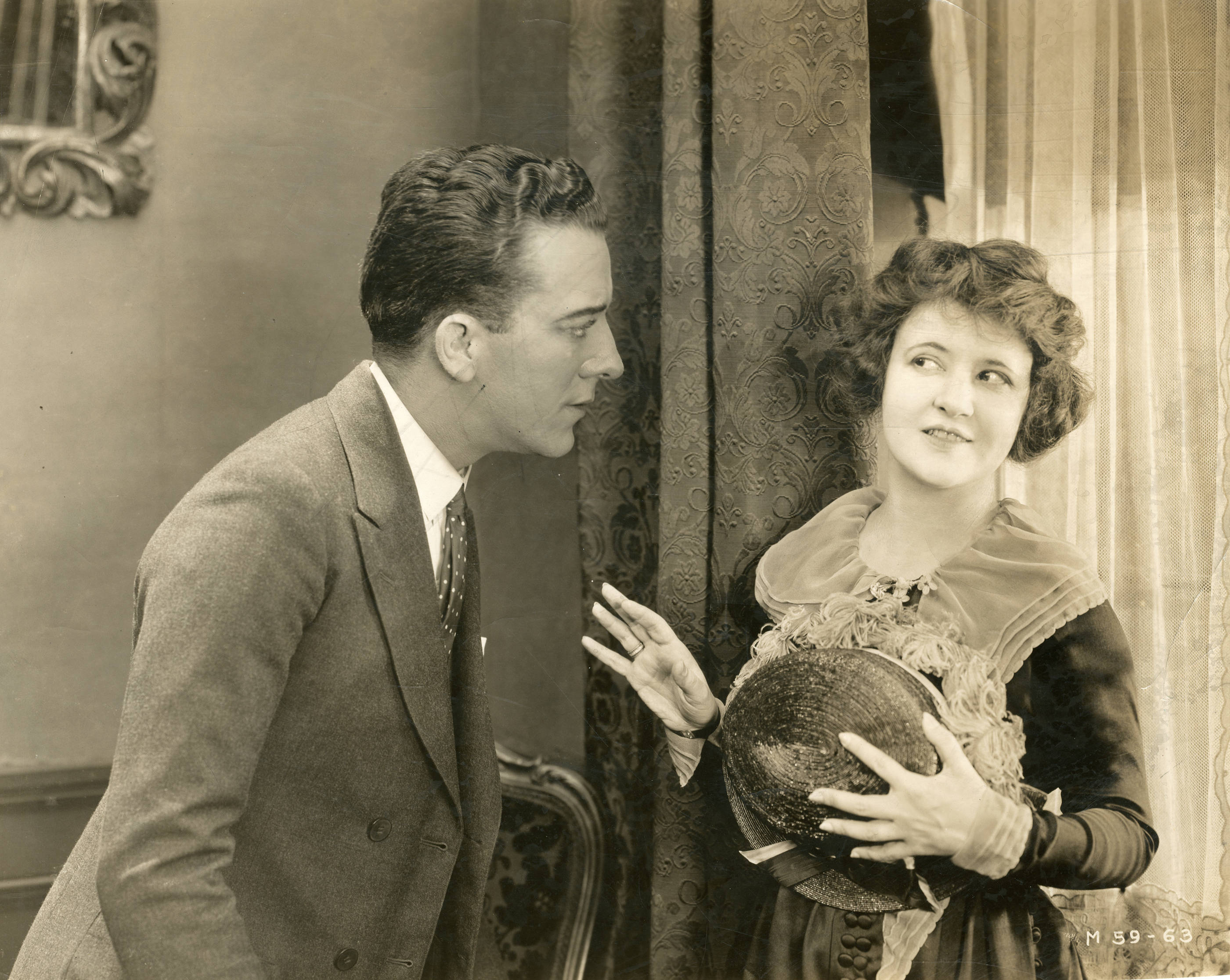 A scene from the American comedy romance film All of a Sudden Peggy (1920), which played at the Strand Theater, Seattle. Includes Marguerite Clark and Jack Mulhall. Date stamped Mar. 1920. Subjects: motion pictures, actresses, actors